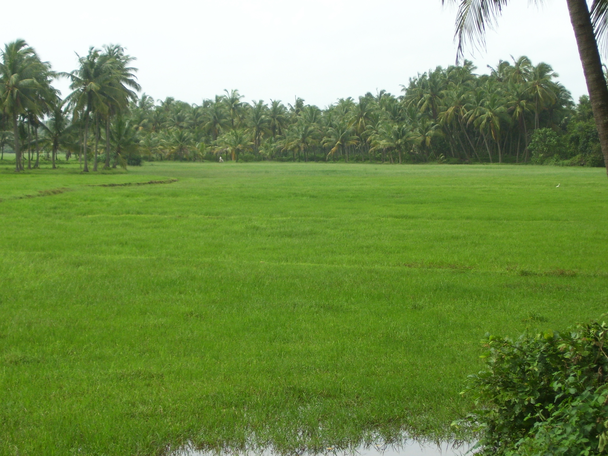 Scene of rural Dakshina Kannada district during rainy season ( Monsoon )